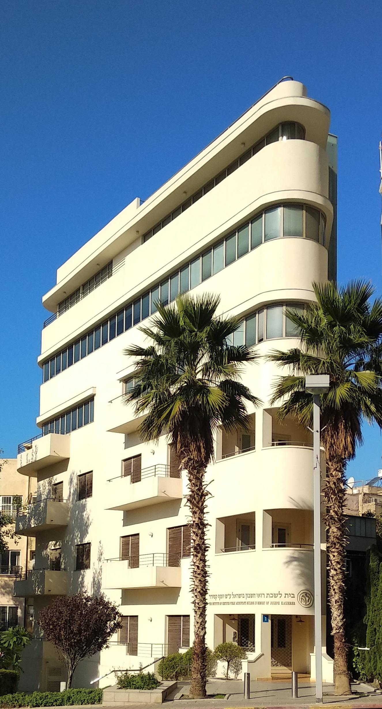 House of Institute of Certified Public Accountants in Israel, Tel Aviv